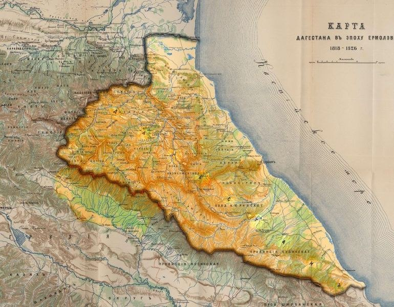 Карта Дагестана в эпоху Ермолова 1818-1826 г.